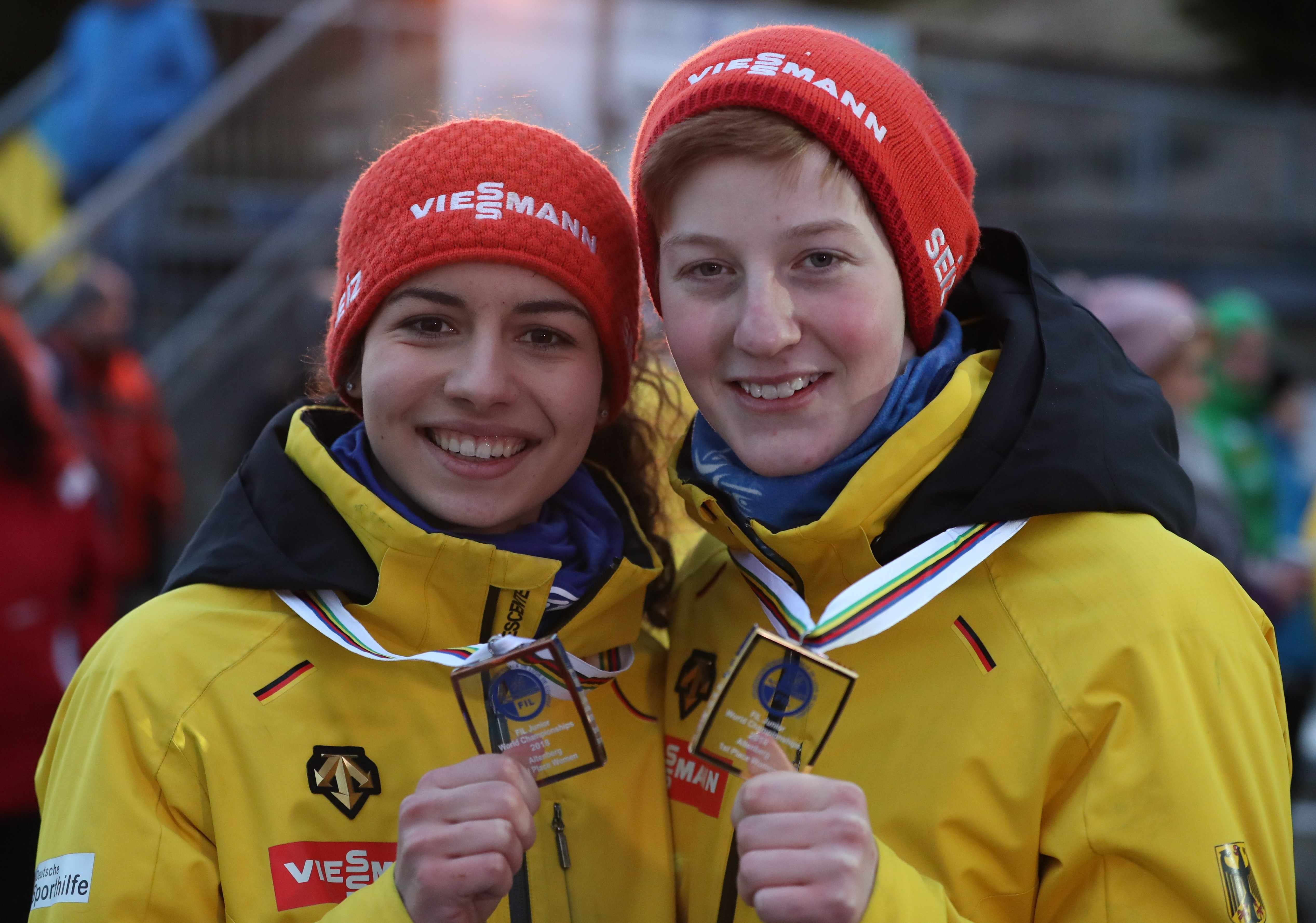 33rd Junior World Championship Luge, Altenberg 2018: Jessica Degenhard, Jessica Tiebel